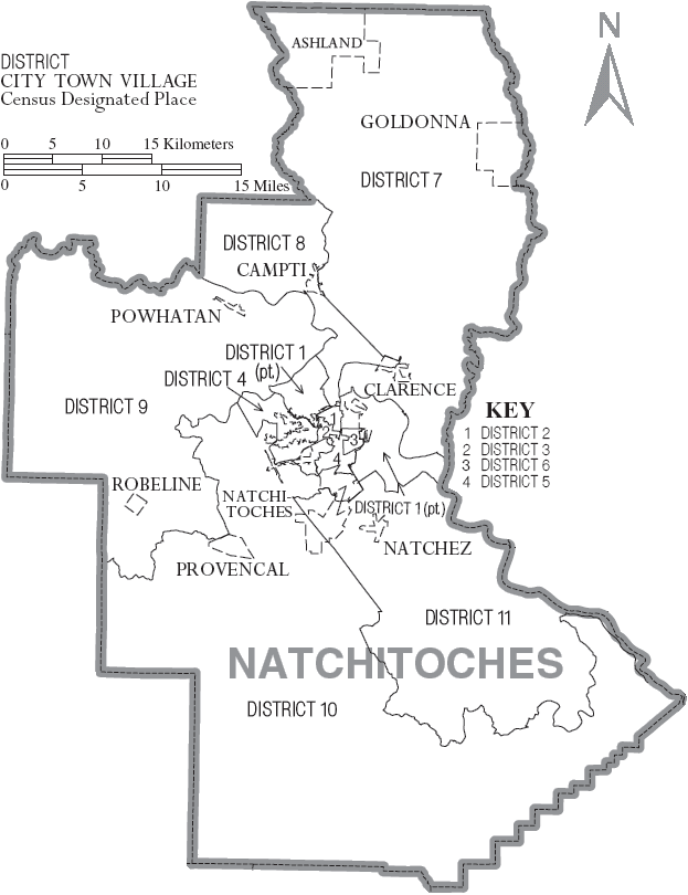 Map of Natchitoches Parish, Louisiana, United States with municipal and district boundaries